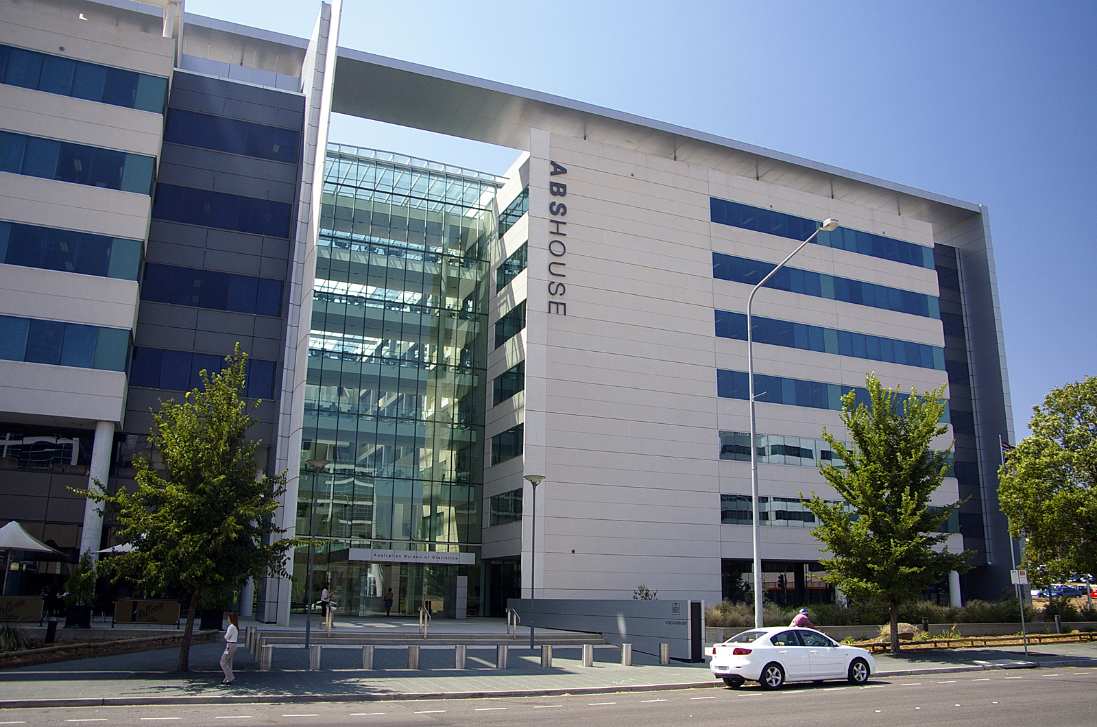 ABS House which is the headquarters for the Australian Bureau of Statistics located at Belconnen, Australian Capital Territory.